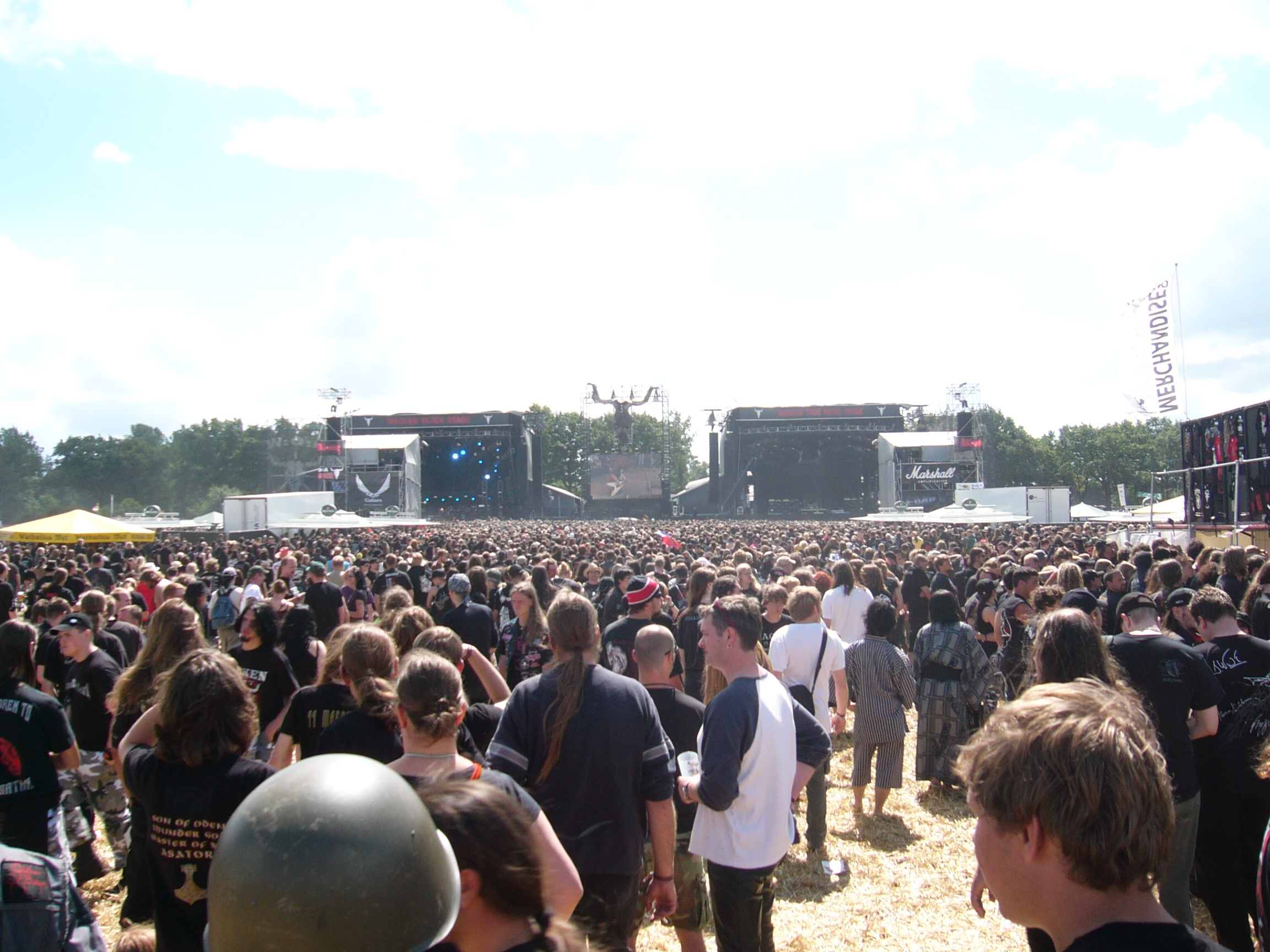 The two main stages of Wacken Open Air 2007 during the Napalm Death concert.